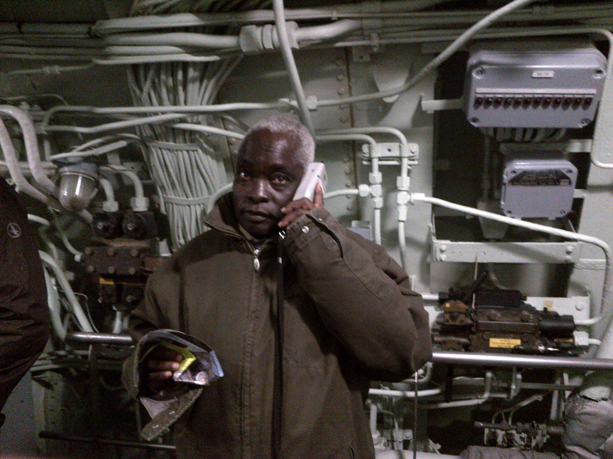 Ministre Dr Joseph KALITE +á bord SNLE le Redoutable